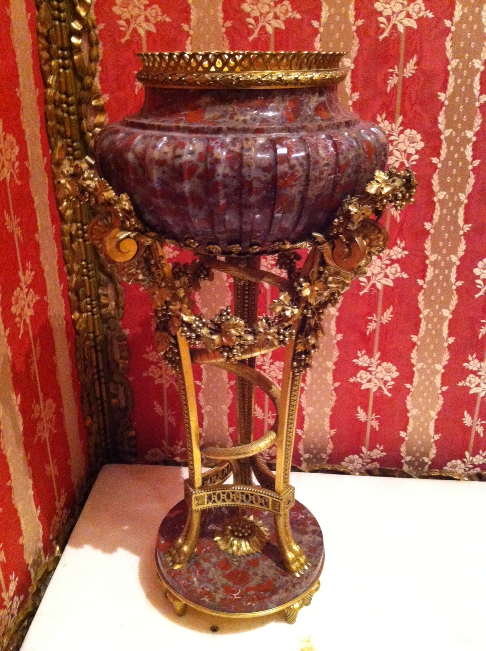 P. Gouthière, Perfume burner in the shape of a cassolette, red jasper and golden bronze. Circa 1774-1775, Wallace Collection